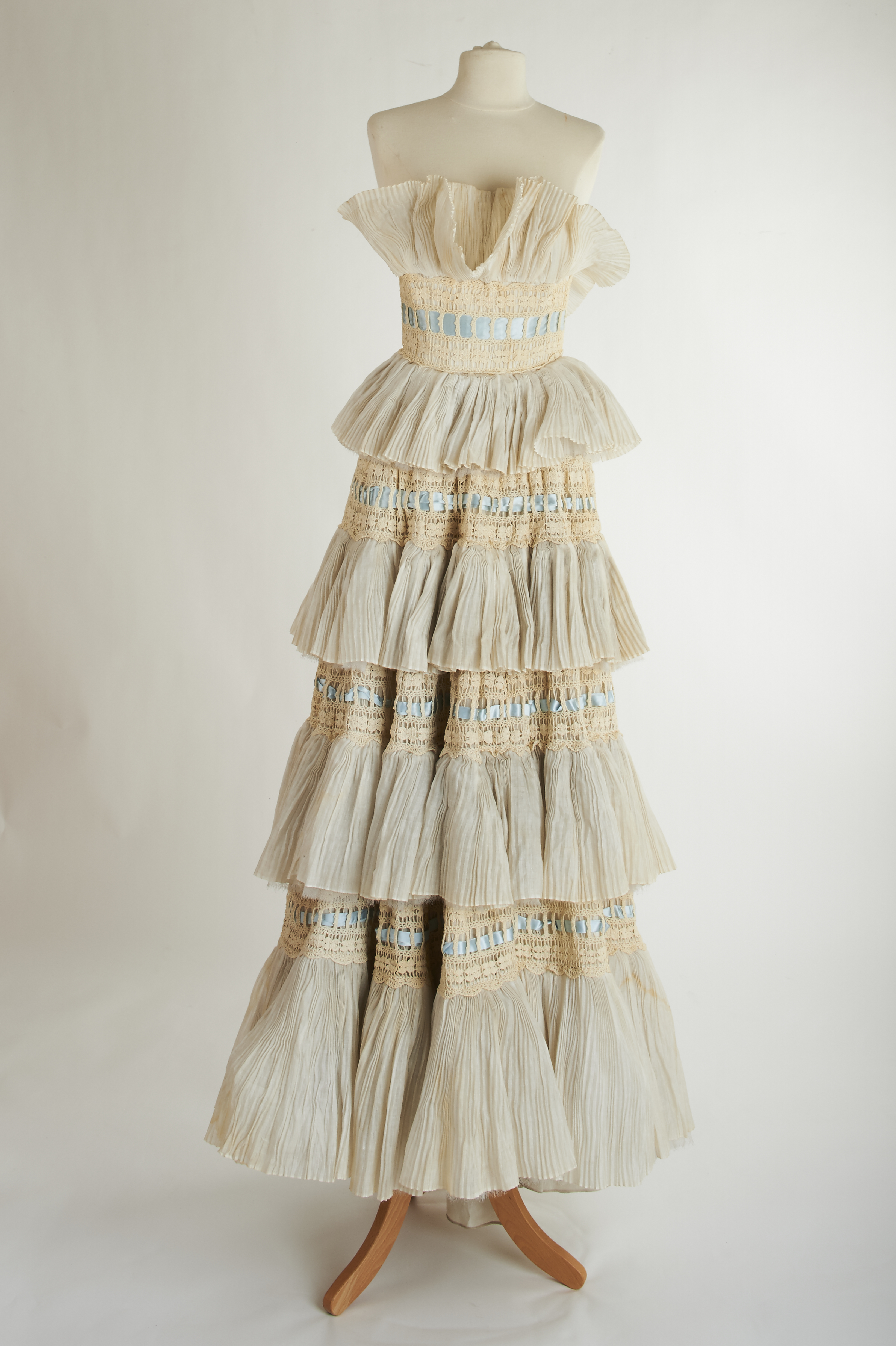 A fairytale gown of chevron pleated handkerchief linen. The tiered bands of the skirt and waist are handmade Irish crochet, interspersed with blue satin ribbon. The décolletage is filled with Irish crochet motifs.